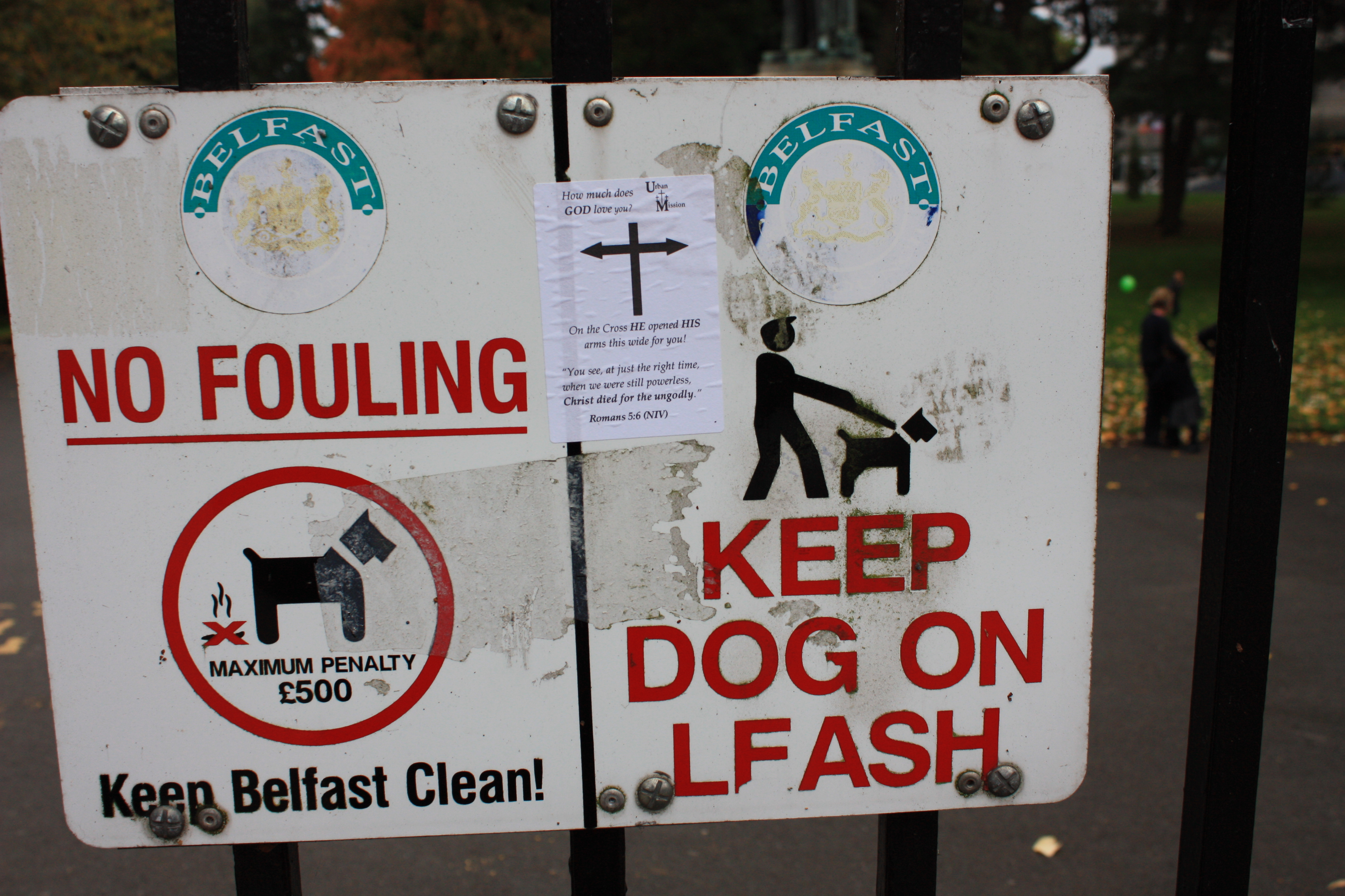 Signs on gates, Botanic Gardens (University Road entrance), Belfast, Northern Ireland, October 2009